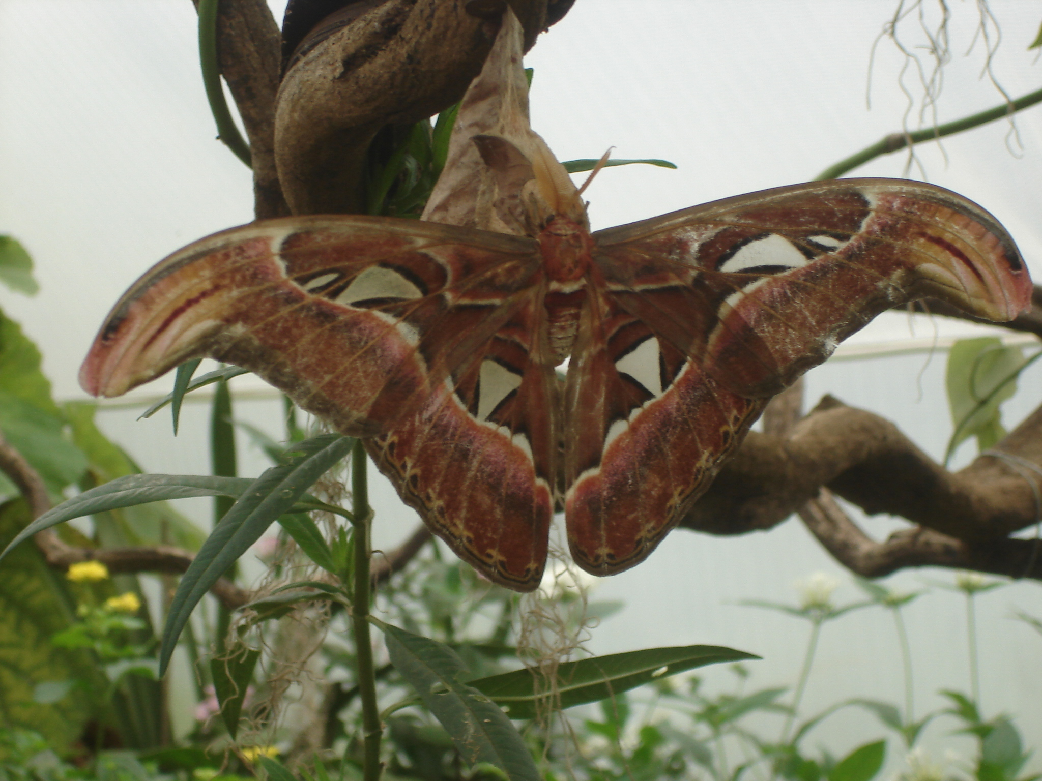 Atlas moth from London Zoo; 05/07/07.